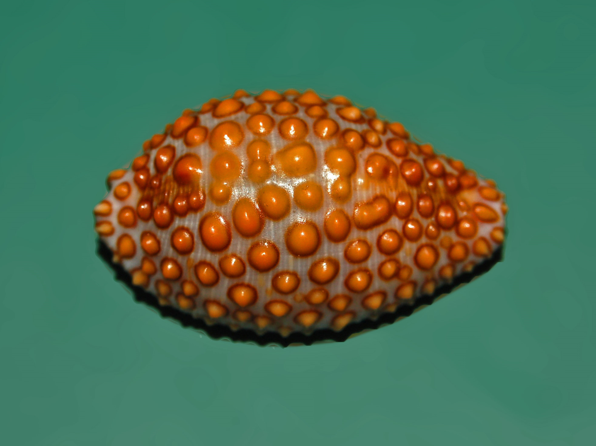 Jenneria pustulata